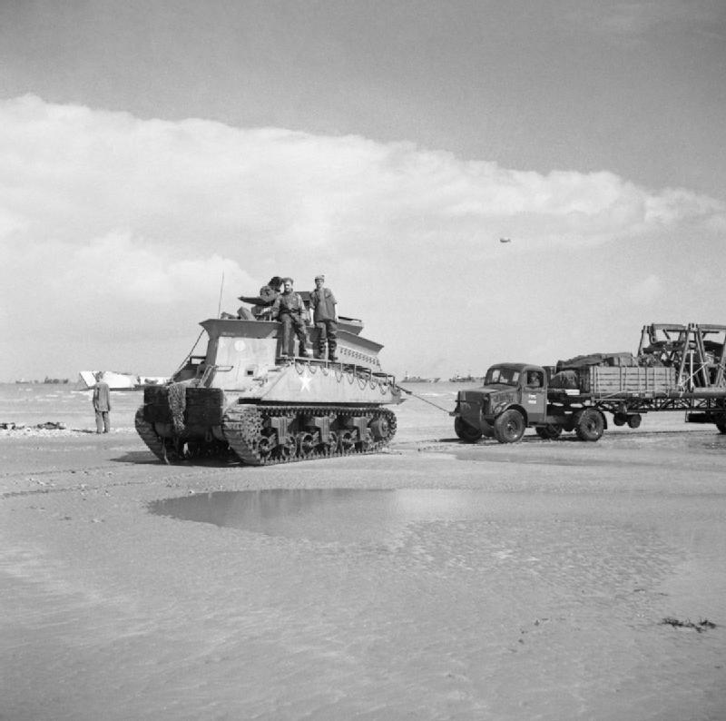 IWM caption : THE BRITISH ARMY IN THE NORMANDY CAMPAIGN 1944. A Sherman BARV tows a disabled Bedford articulated lorry and trailer off the beach.